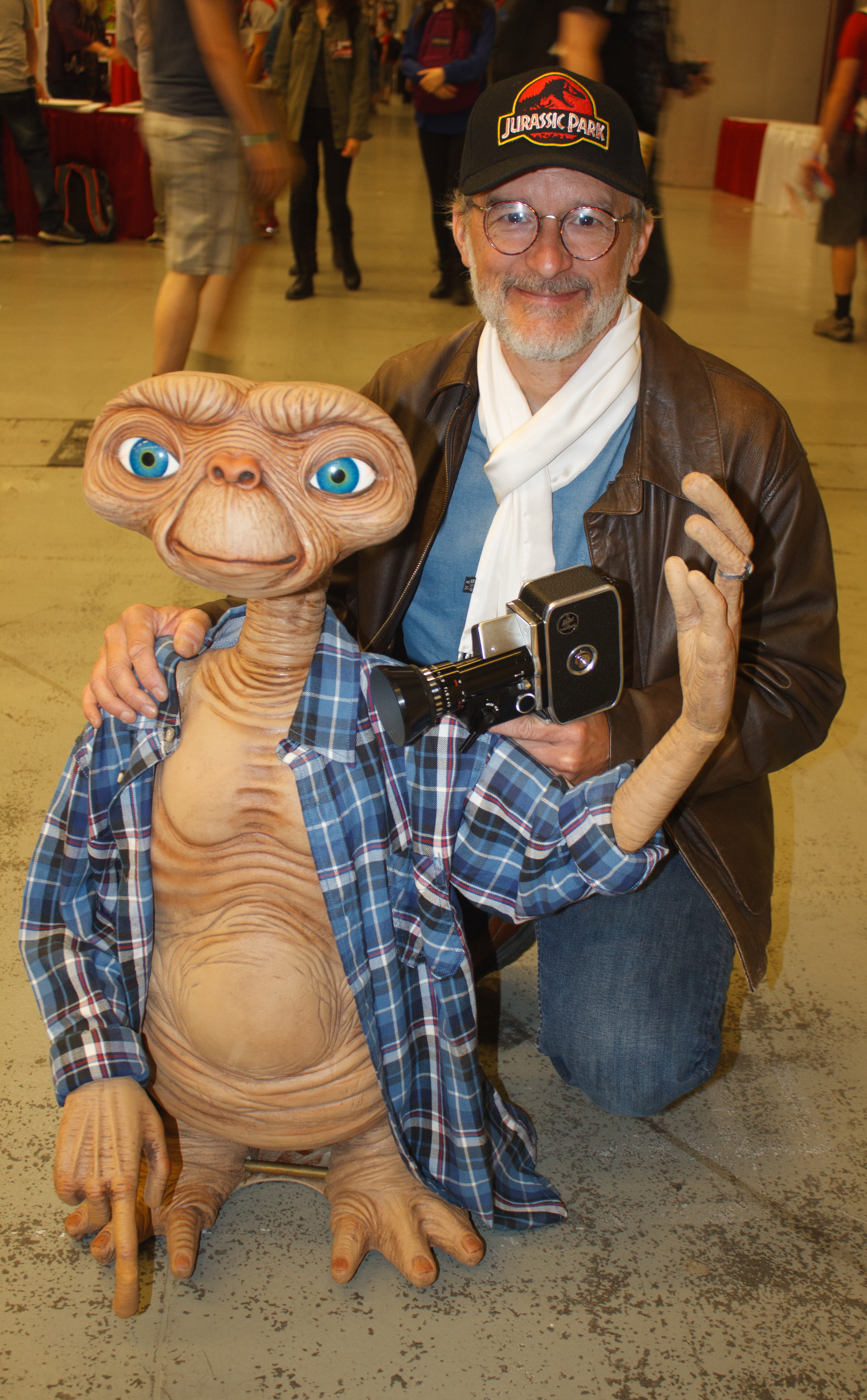 Cosplay on Saturday, day two, of the Montreal Comiccon 2016.